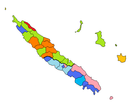 Created map myself. Results of 2009 Provincial elections in New Caledonia. ■ - Rassemblement UMP ■ - Calédonie ensemble ■ - Avenir ensemble ■ - FLNKS ■ - UC ■ - Palika ■ - LKS ■ - FCCI